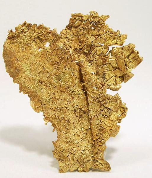 Gold Locality: Roşia Montanã (Verespatak; Vöröspatak; Goldbach), Alba County, Romania (Locality at ) Size: 3.3 x 2.6 x 0.25 cm. An exquisite plate composed of intergrown, dense gold crystals. This is a rich and attractive miniature for this important, historic old locality and such specimens are hard to come by. Although there are no old labels, a friend of mine who specializes in these localities, Josef Vajdak, has taken the piece to compare personally to those in museums in Vienna and in Prague, to be certain of its legitimacy.